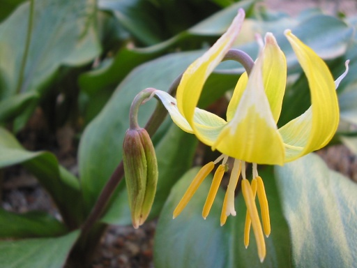 Erythronium pagoda, Jardin des Plantes, Paris